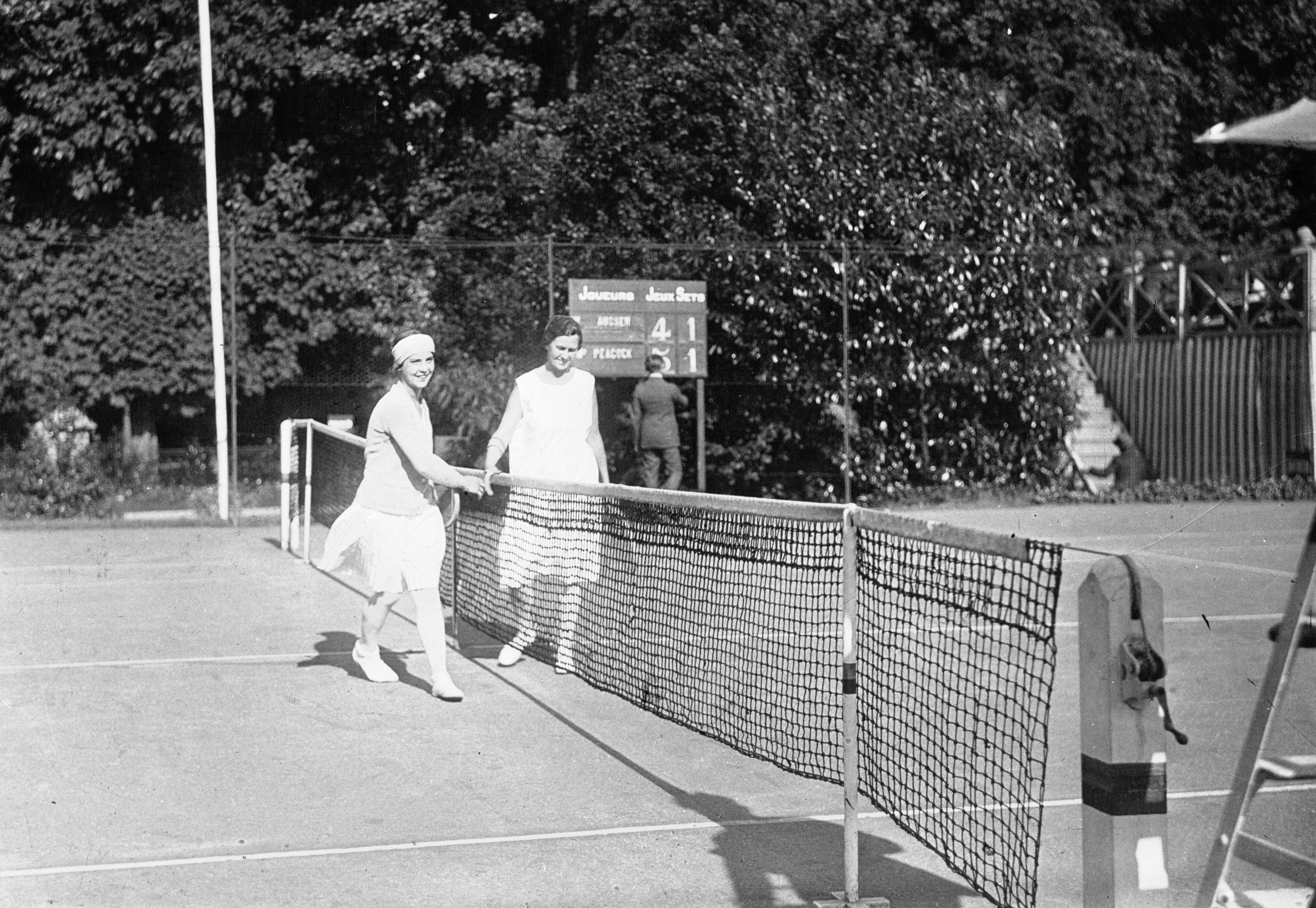 Quarterfinal match between German Cilly Aussem (left) and South African Irene Peacock at the 1927 French Championships. Players shake hands after the match which Peacock won 4-6, 6-2, 6-4.